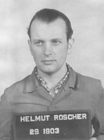 Helmut Roscher was SS-Oberscharführer and second roll call leader in the concentration camp of Buchenwald. In the Buchenwald Camp Trial (part of the Dachau Trials) he was sentenced to death by hanging (later modified to lifetime imprisonment).